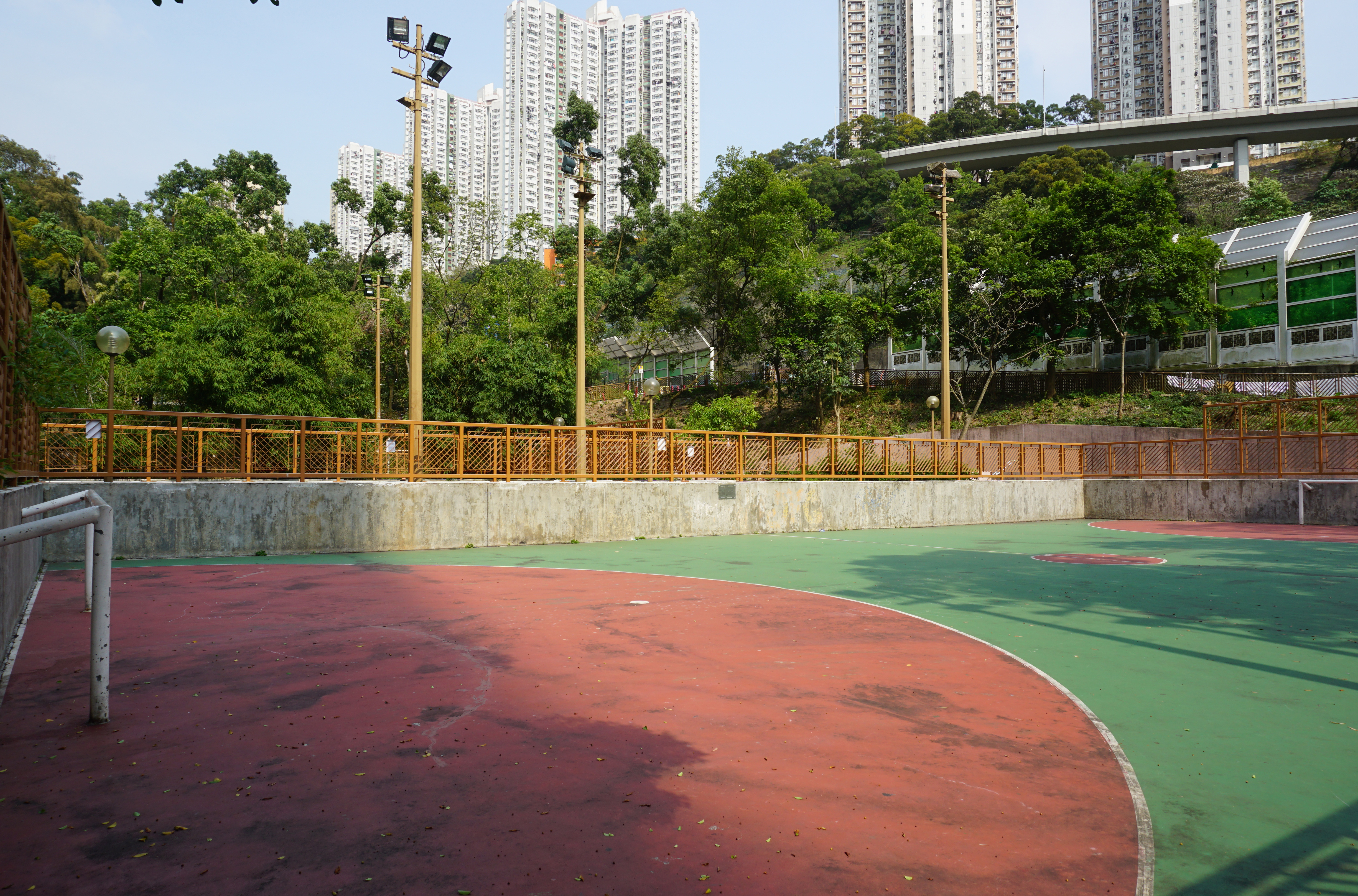 Tsui Ping (South) Estate in Kwun Tong, Hong Kong.